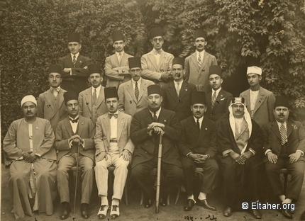 Muslim Youth Associations meeting in Cairo 1930 صورة تجمع أعضاء الوفود التي حضرت مؤتمر جمعيات الشبان المسلمين في مصر وغيرها من البلدان وذلك في المقر العام للجمعية في القاهرة يوم ١٠ يوليو (تموز) ١٩٣٠. الجالسين في الصف الأول من اليمين إلى اليسار: أحمد زكي الطاهر – عثمان عبد الله – هاني أبو مصلح – الدكتور عبد الحميد بك سعيد رئيس الجمعية – سامي السراج – محمد علي الطاهر – الشيخ علي عبدالكريم . الصف الثاني من اليمين إلى اليسار: الشيخ يحي أحمد البطة – الدكتور حسني الطاهر – قطب زهران – الدكتور منصور القاضي – الدكتور يحي أحمد الدرديري – محمد رفيق اللبابيدي. الصف الثالث من اليمين إلى اليسار: محمد أحمد الغمراوي – محمود علي فضلي – محب الدين الخطيب – محمد الناغي © المصور بدر